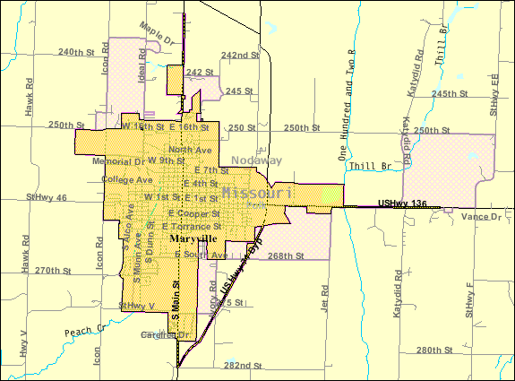 U.S. Census 2000 reference map for Maryville